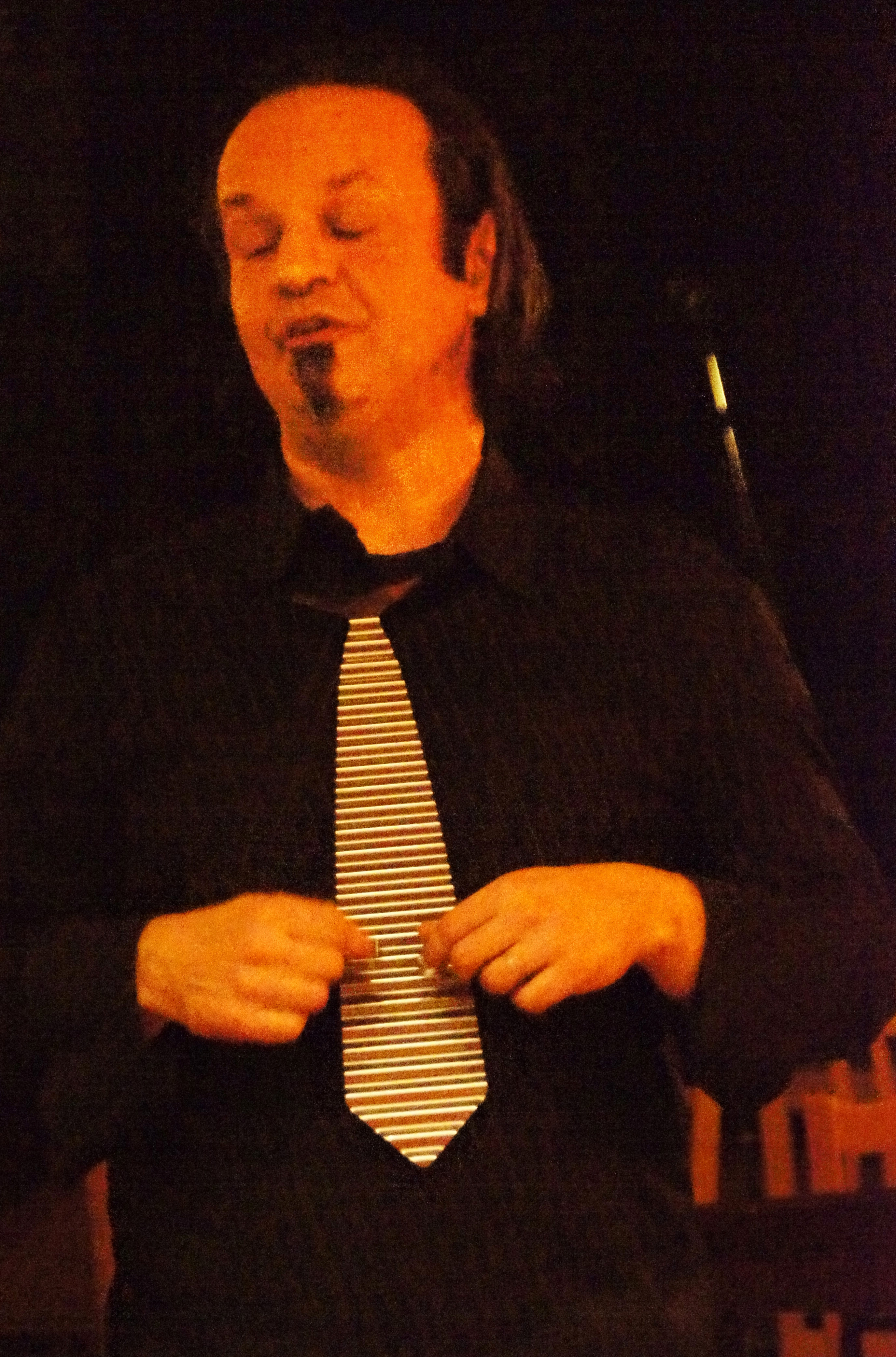 On that evening, Leo Lukas performed for just a bunch of friends in some little Viennese beer&coffee bar. Note that the 'thing' pretty much looking like a tie is singer-songwriter's washboard. ;)